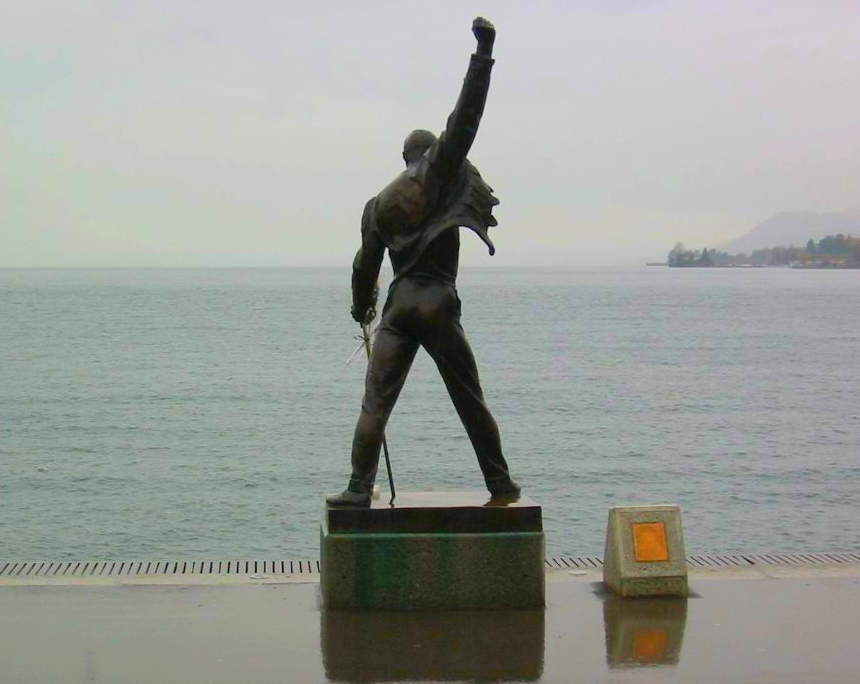 Bronze statue of Freddie Mercury without tourists.